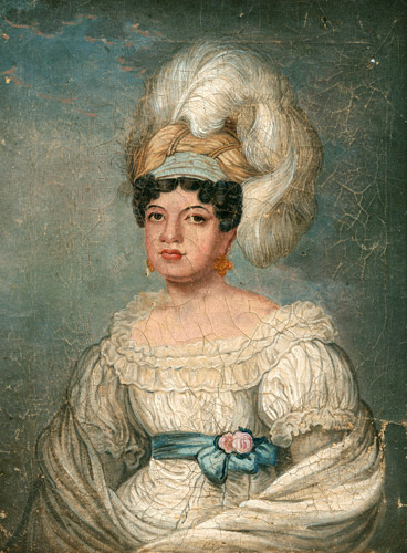 A portrait of Queen Kamāmalu, copied from an 1824 lithograph by John Hayter.There is additional provenance at a copyrighted Antique Associates at West Townsend page, "Queen Kamamalu of Hawaii (1802-1824), Oil On Canvas"